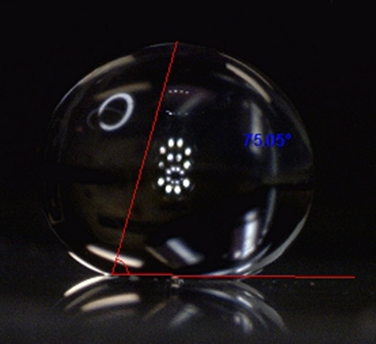 Super hydrophobic surface achieving 150+ deg contact angle. Surface was prepared using plasma enhanced chemical vapor deposition using a plasma technology system Aurora.